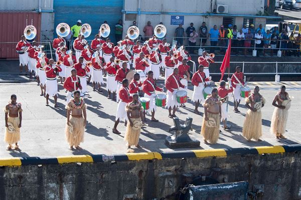 The Republic of Fiji Military Forces Band performs as the Arleigh Burke-class guided-missile destroyer USS Michael Murphy (DDG 112) pulls into Suva, Fiji, Jan. 27, 2017. Michael Murphy is on a regularly scheduled western Pacific deployment with the Carl Vinson Carrier Strike Group as part of the U.S. Pacific Fleet-led initiative to extend the command and control functions of U.S. 3rd Fleet.